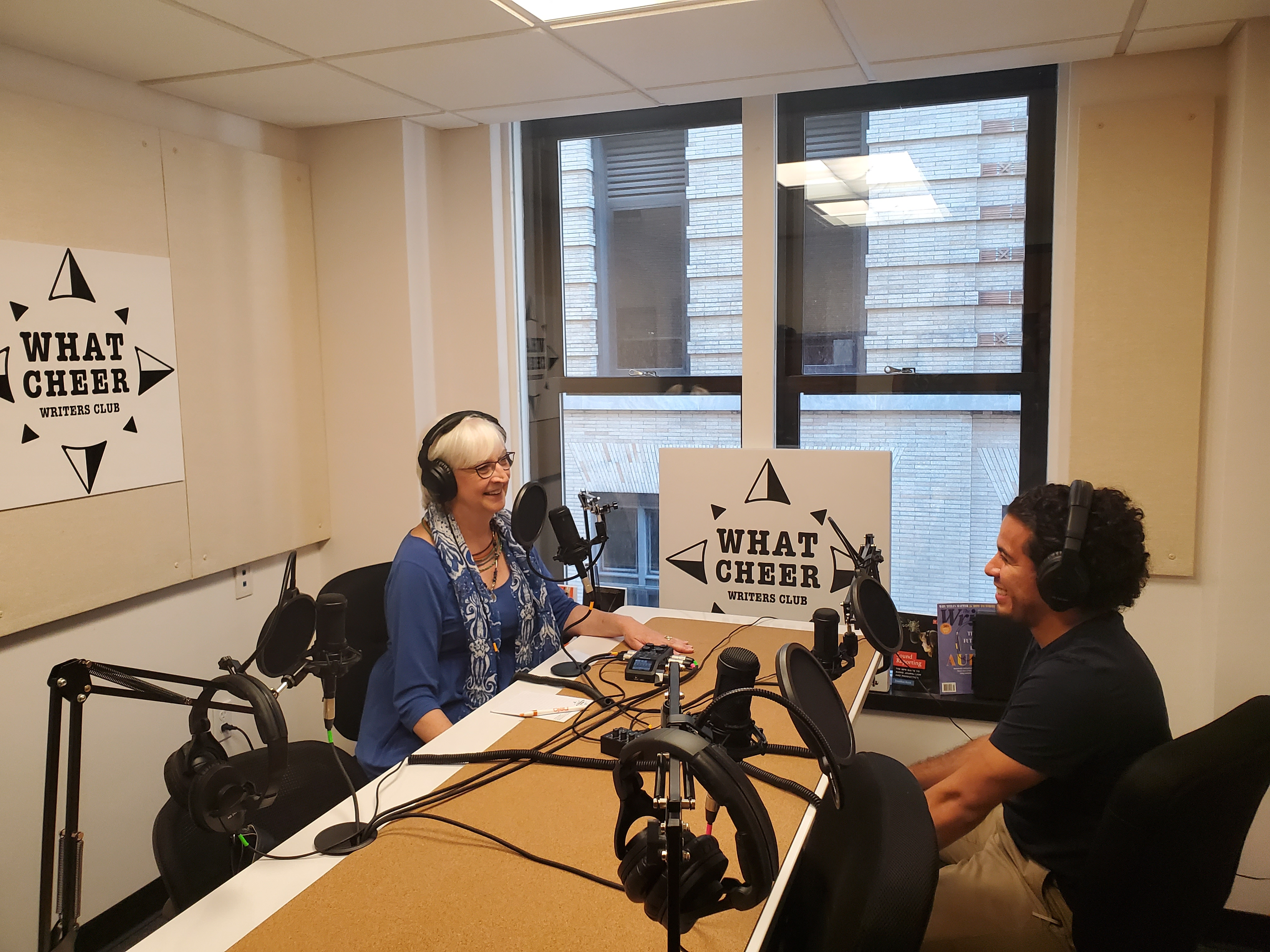 Podcasting studio in What Cheer Writers Club in Providence, Rhode Island, including microphones, recording equipment, interviewer and interviewee.